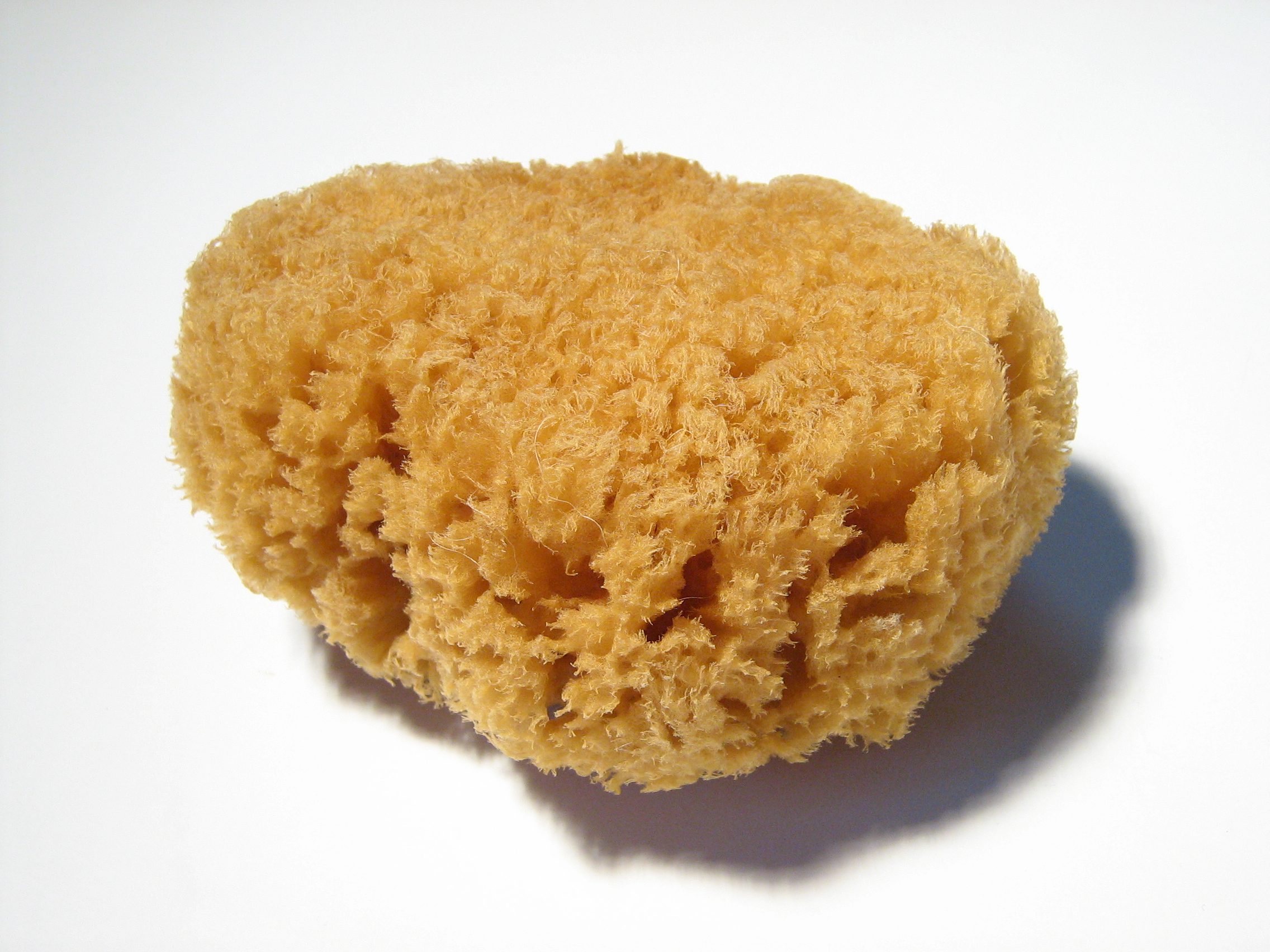 A natural sponge, to be used in household.